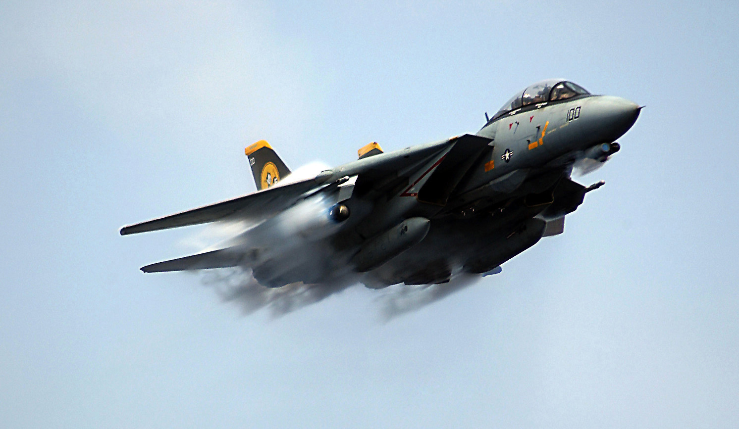 A US Navy (USN) F-14D Tomcat standard fleet fighter aircraft (Aircraft number 100), Fighter Squadron 31 (VF-31, Tomcatters), makes a near-supersonic low-level fly-by above the USN Nimitz Class Aircraft Carrier, USS THEODORE ROOSEVELT (CVN 71), while the USS ROOSEVELT is participating in a Joint Task Force Exercise (JTFEX) with the USN Nimitz Class Aircraft Carrier, USS DWIGHT D. EISENHOWER (CVN 69) in the Atlantic Ocean (AOC).